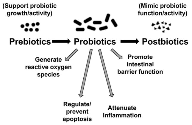 Mechanisms of action of probiotics at the cellular level in intestinal epithelia.